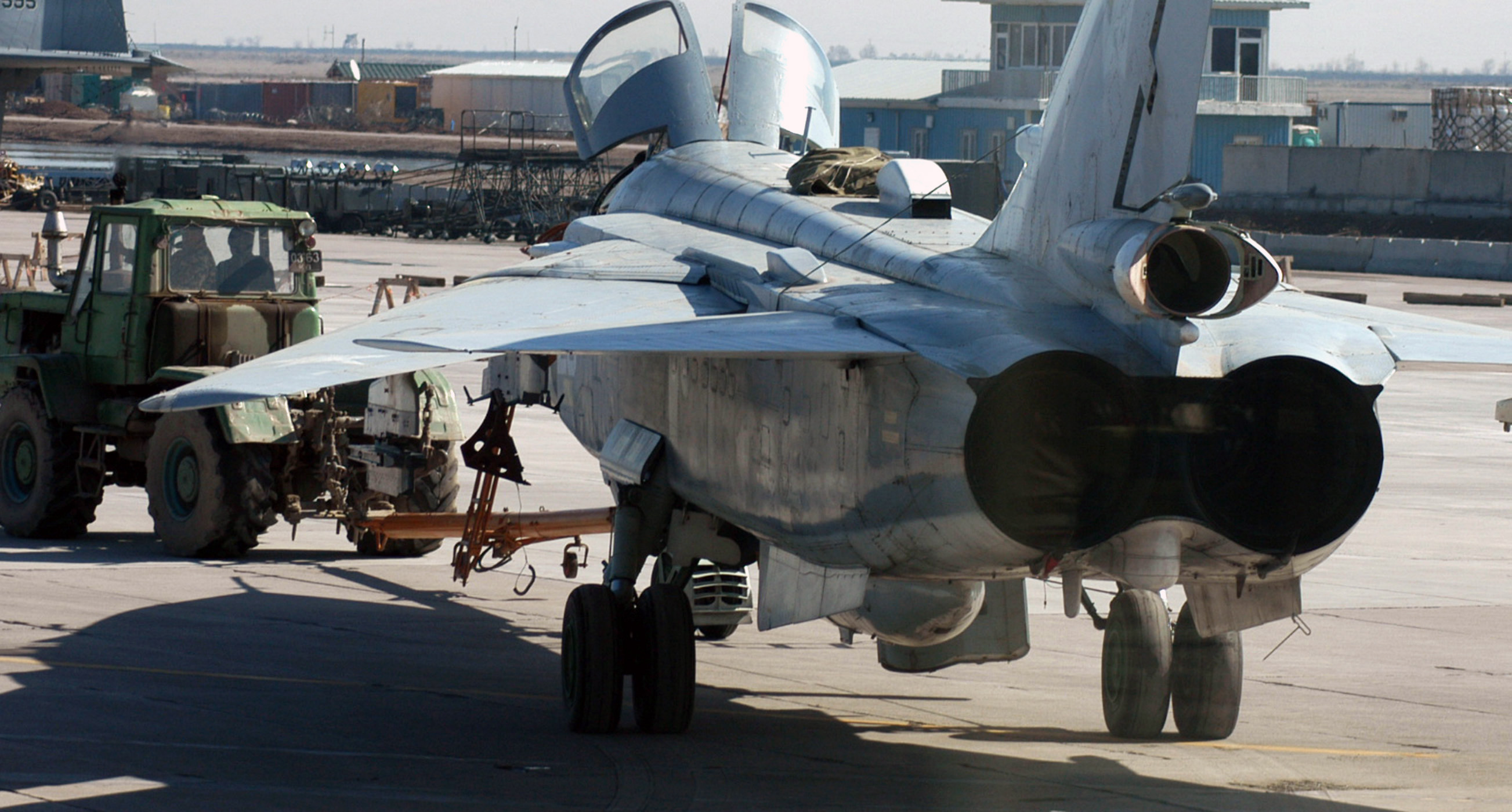 Uzbekistan Air Force maintenance personnel tow an Uzbekistan Air Force Su-24 Fencer fighter aircraft at Karshi-Khanabad Air Base, Uzbekistan, on February 14, 2005.